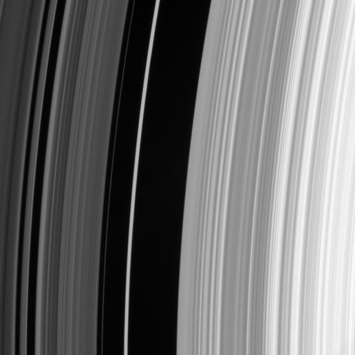 This image shows the Huygens gap inside the Cassini división on Saturn's rings, it's posible to see the Huyens ringlet inside gap in the center of the image.